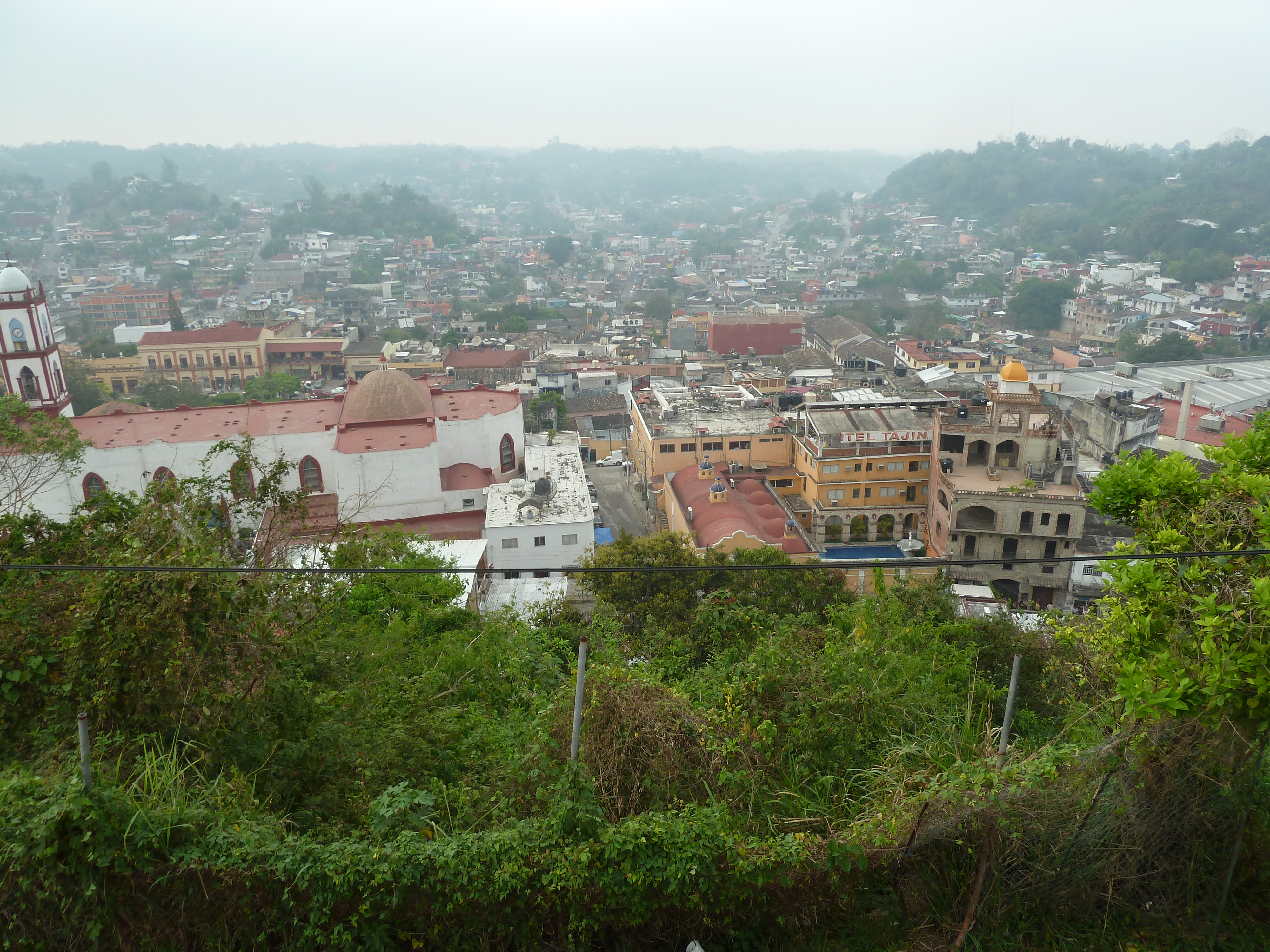 Vista del centro histórico de Papantla hacia el norte desde el Monumento al Volador